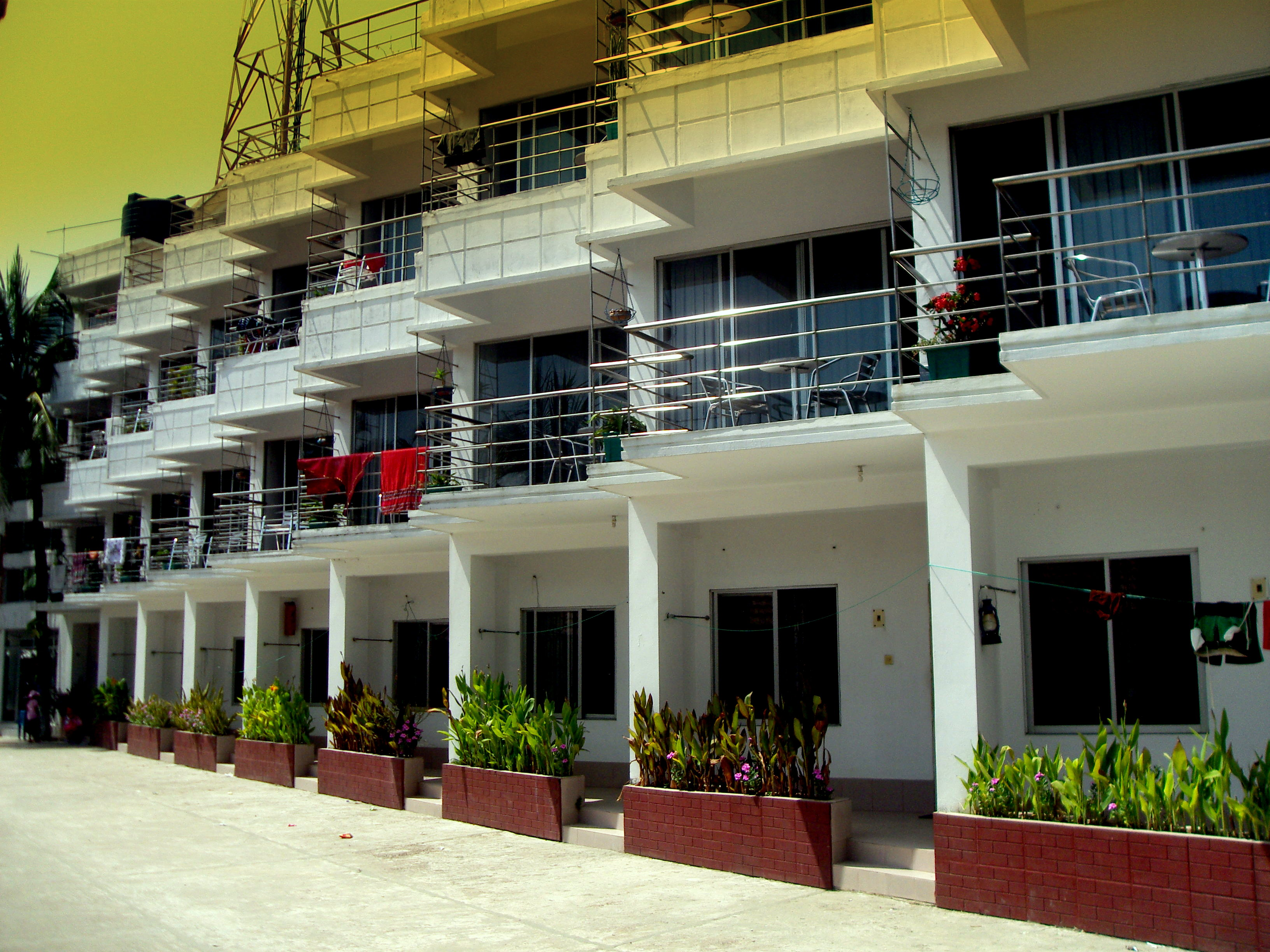 Blue Marine Resorts in St. Martin's Island